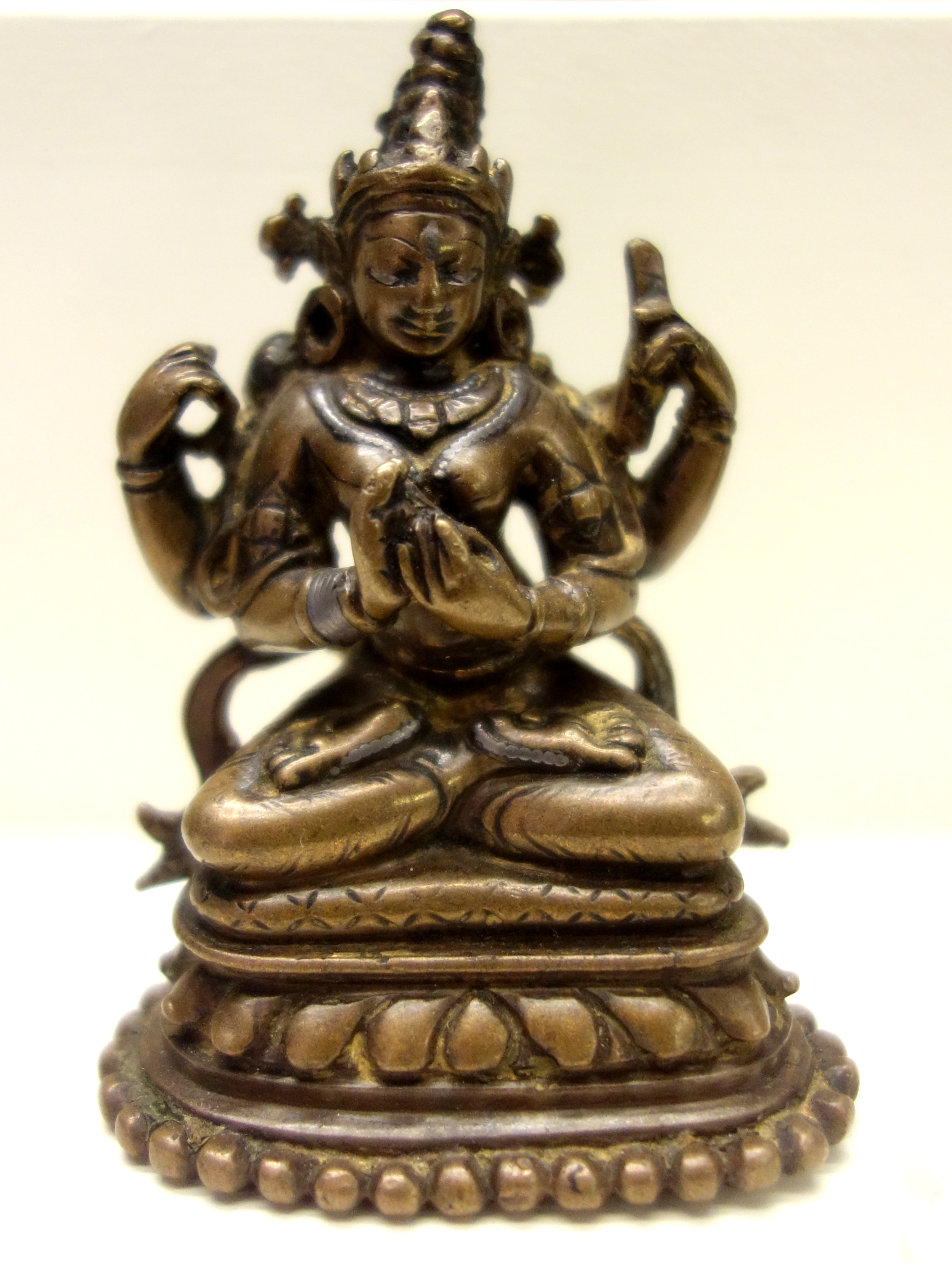 Exhibit in the Fitchburg Art Museum, Fitchburg, Massachusetts, USA. This artwork is old enough so that it is in the public domain.